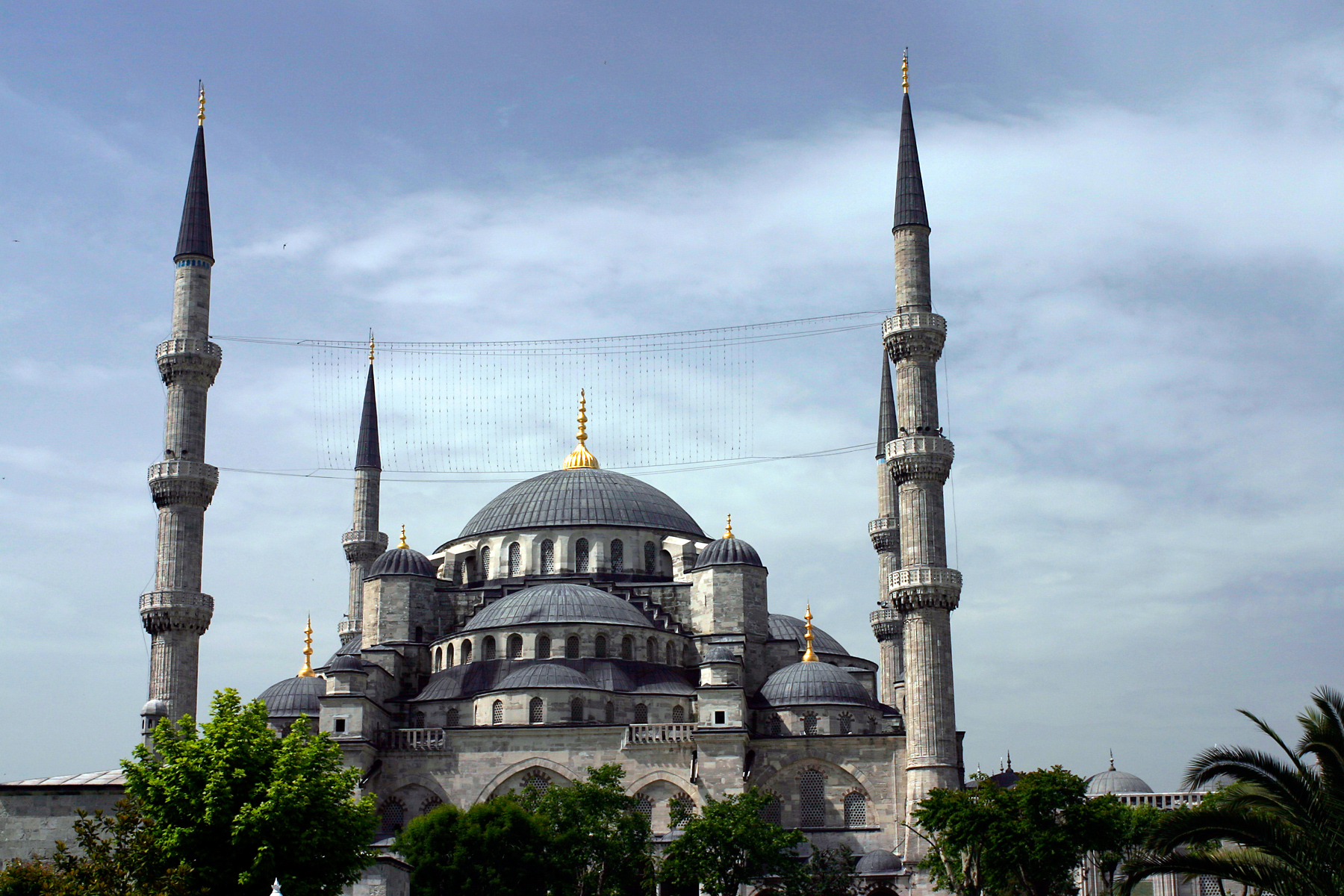 Exterior view of Sultan Ahmed Mosque.